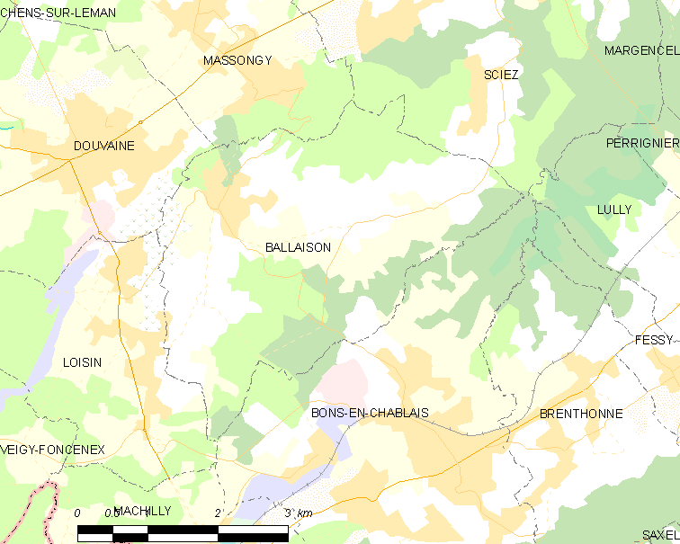 Map of French municipality Ballaison